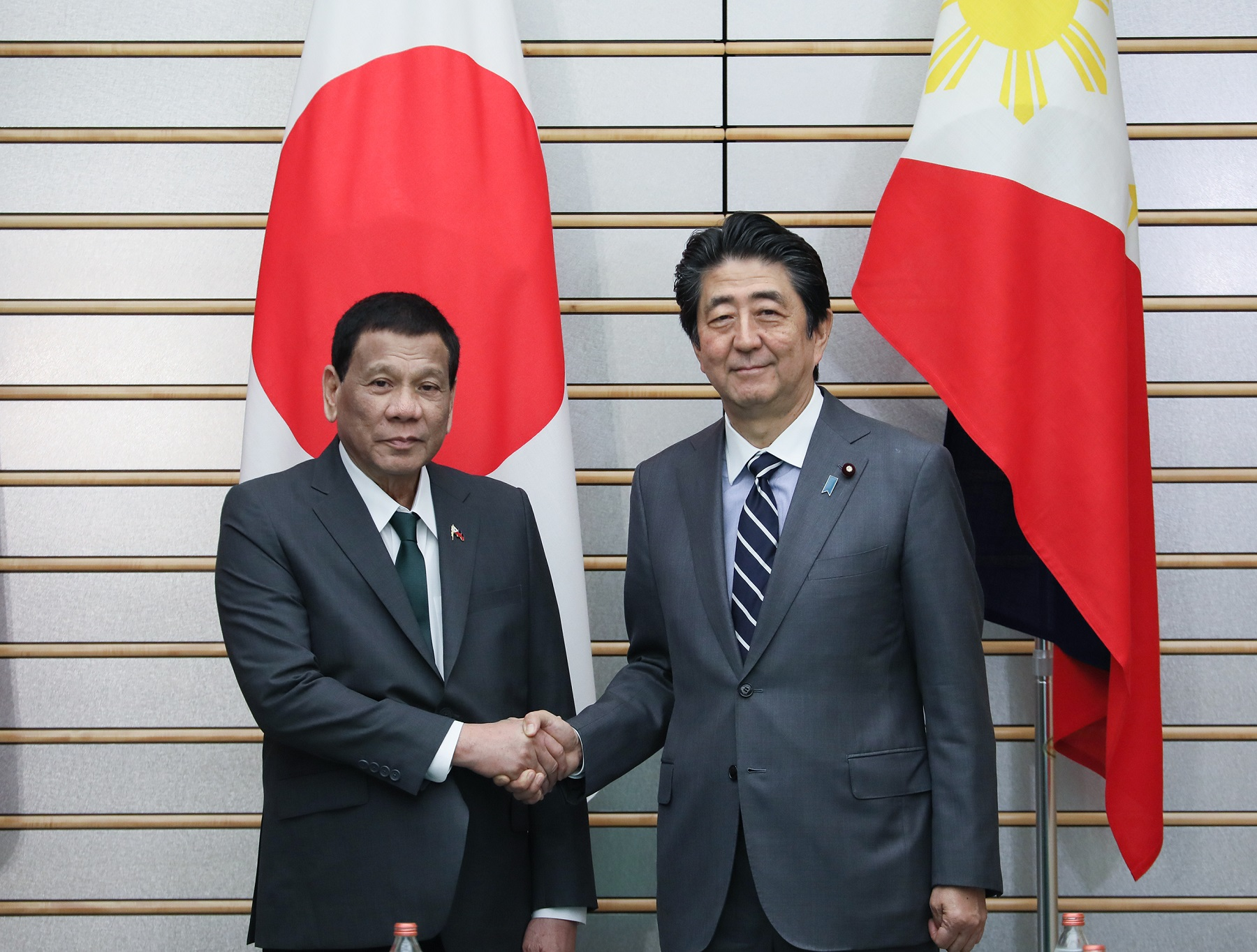 20190531 Rodrigo Duterte and Abe Shinzo